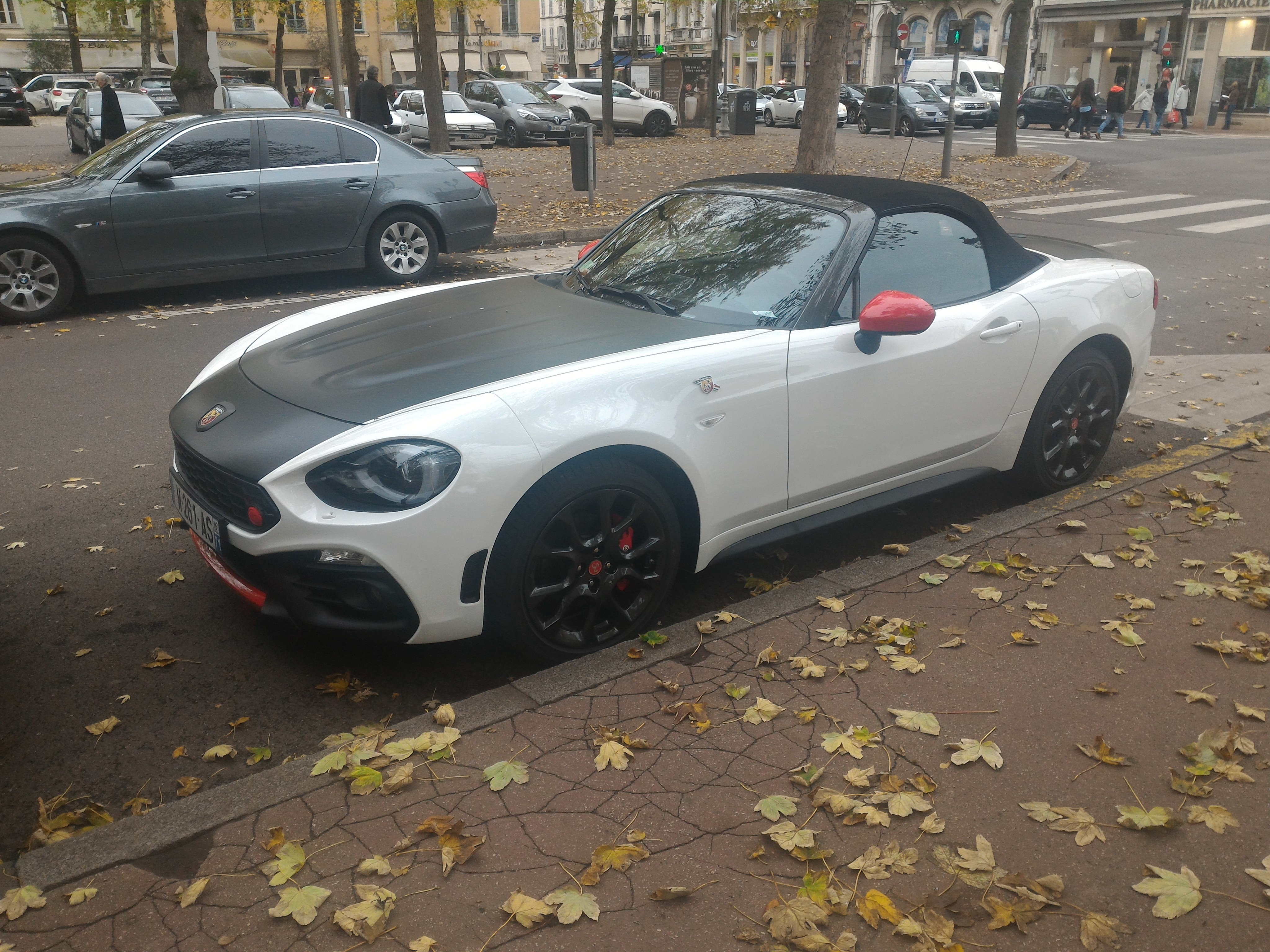 Fiat 124 Abarth (1.4 170 hp) at Chalon sur Saone